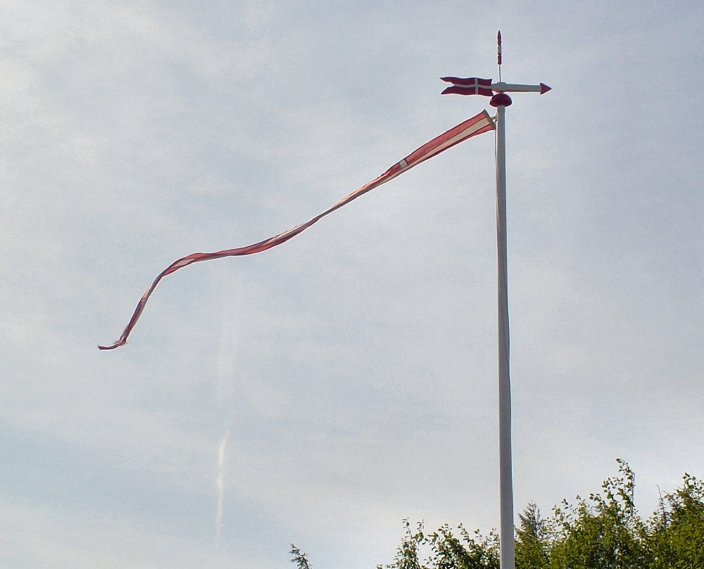 Danish pennon/flag